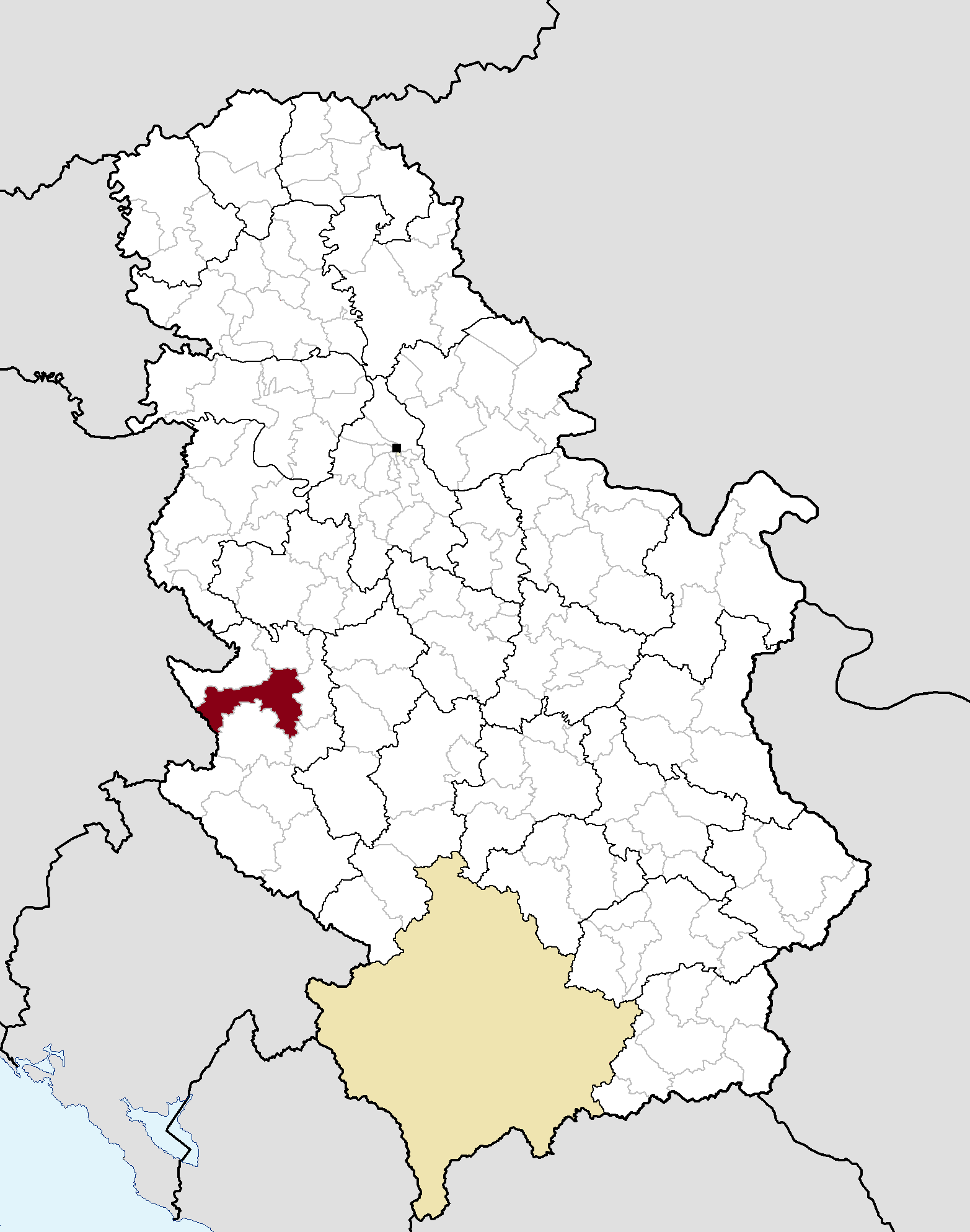 Municipal location in Serbia